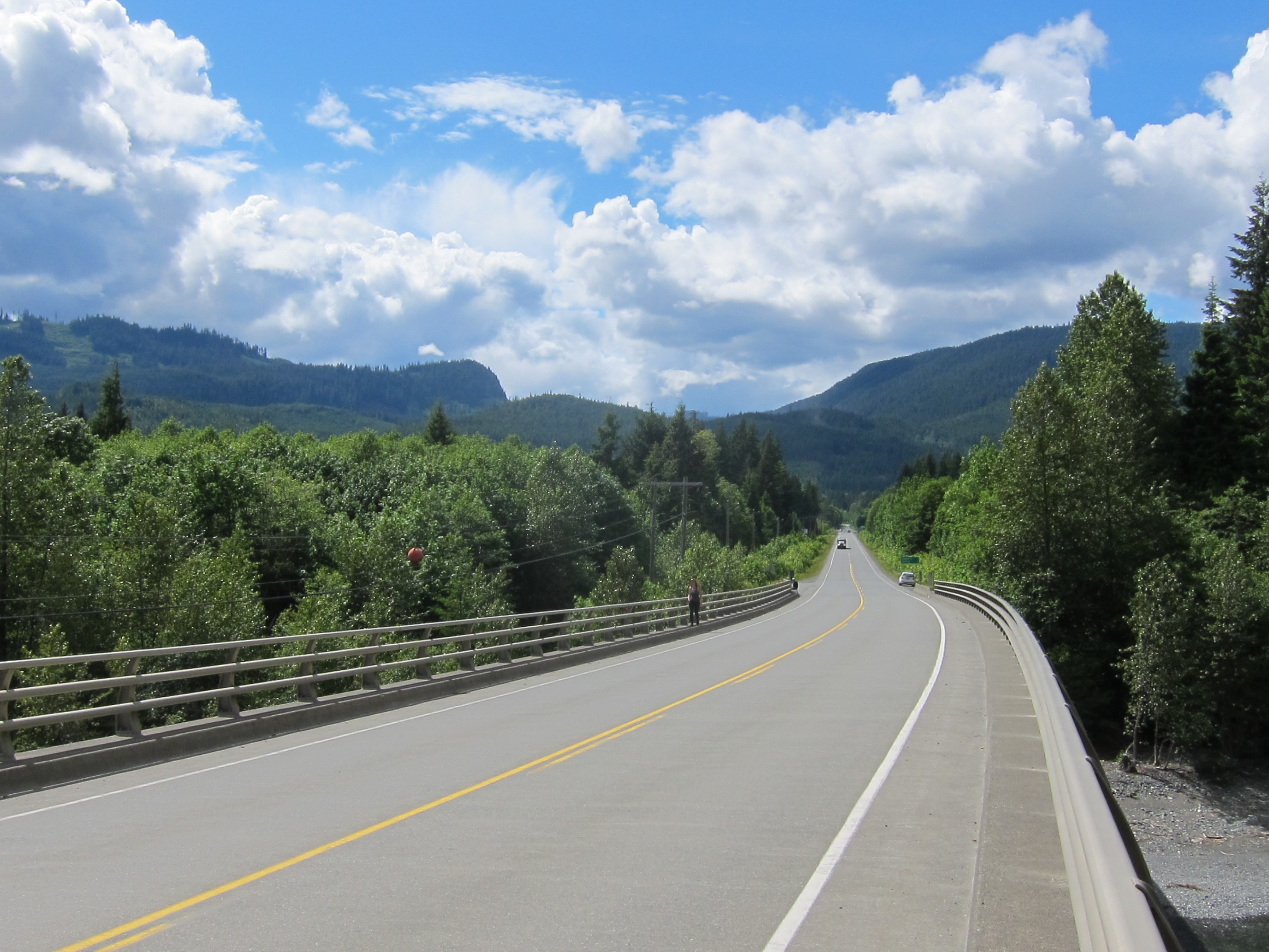 The Island Highway as it passes over the Salmon River, near Sayward